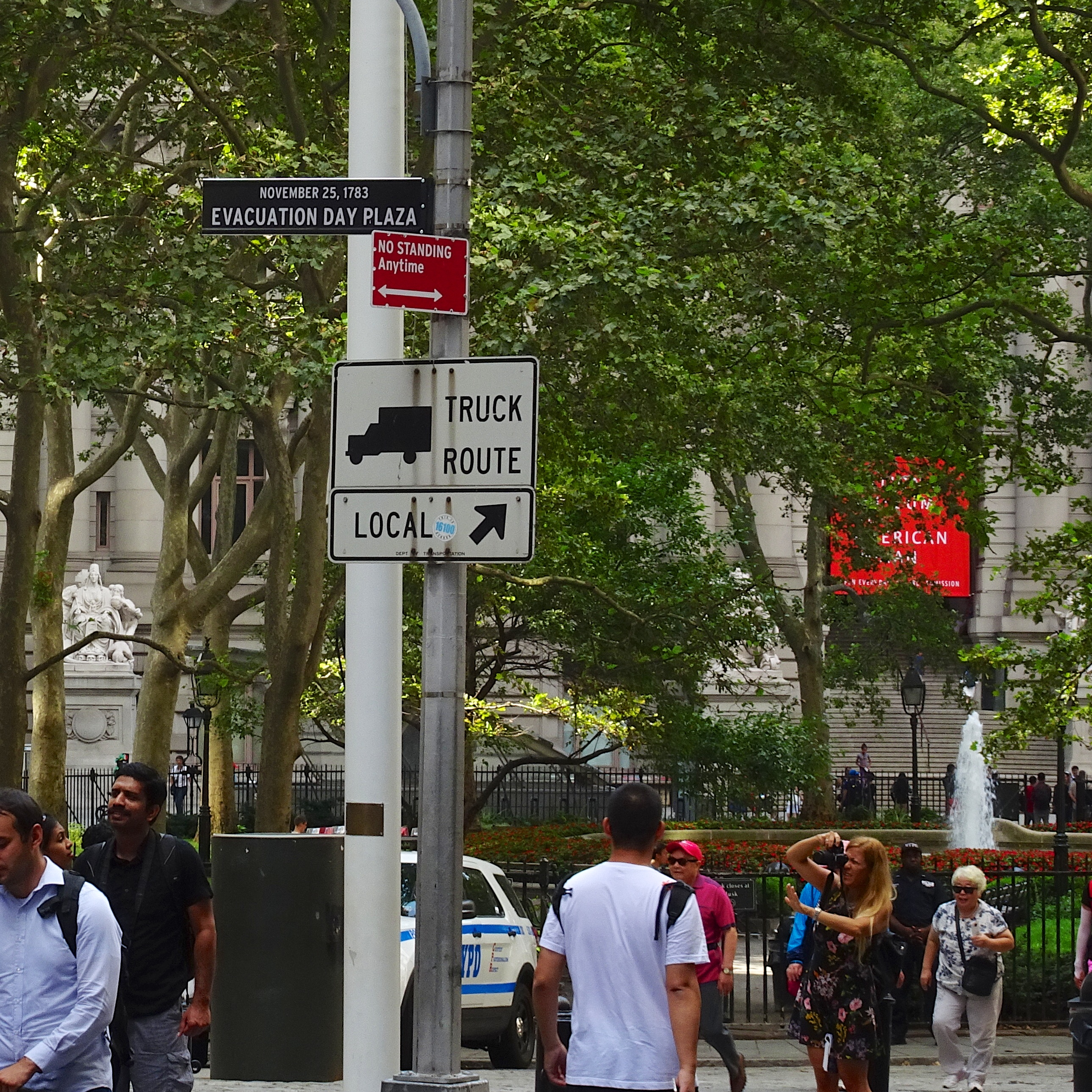 View of Bowling Green Plaza, looking south, showing the street sign, installed 2016, commemorating Evacuation Day on November 25, 1783. The Bowling Green fountain is on the right and the Alexander Hamilton U.S. Custom House is in the background, with two of the Four Continents sculptures by Daniel Chester French and Adolph Alexander Weinman visible.